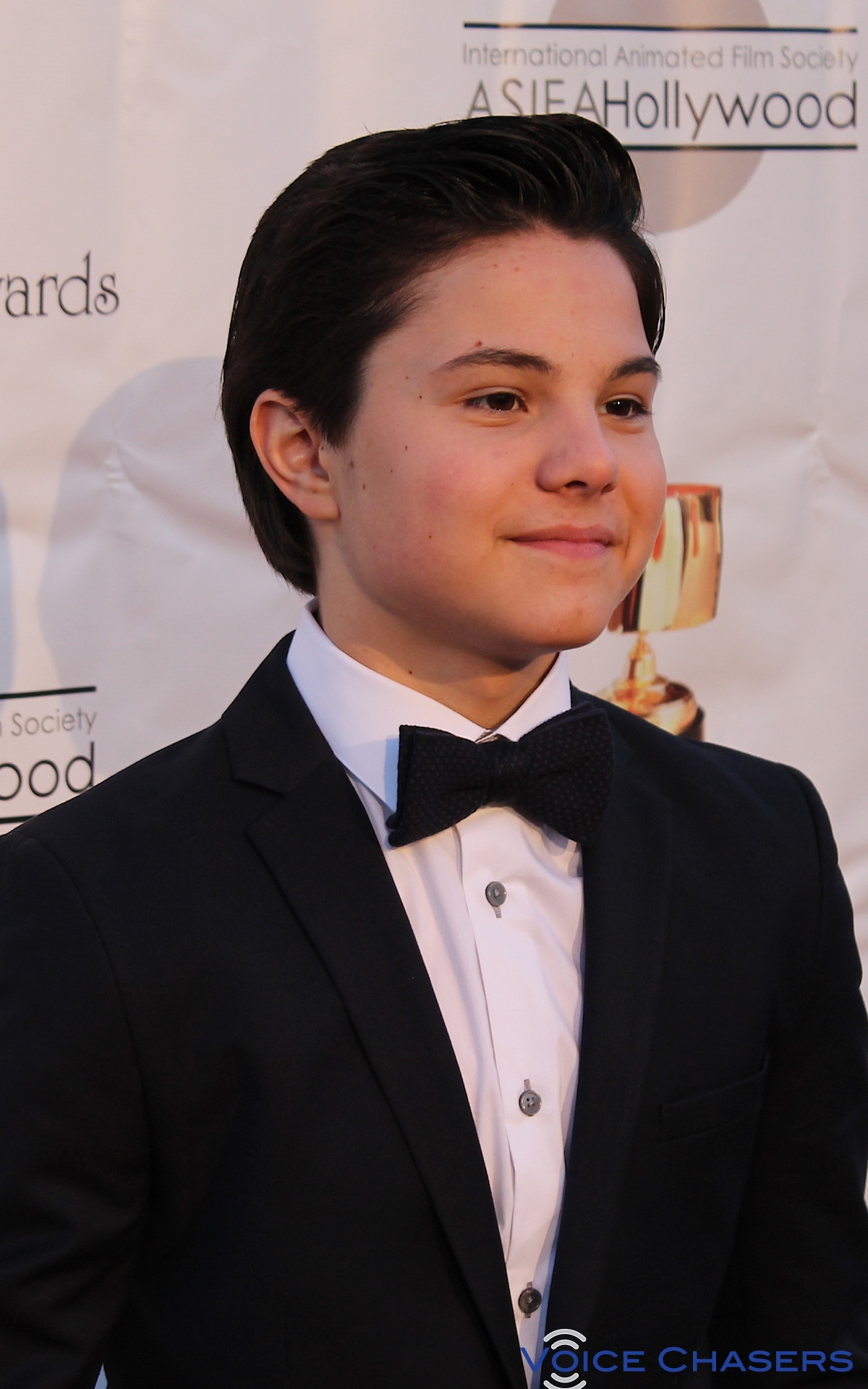 Zach Callison at the 41st Annual Annie Awards.